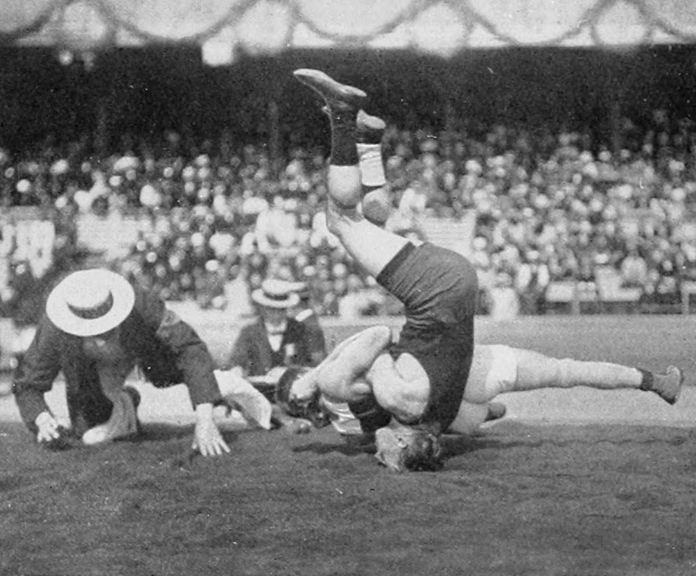 Harry Larsson and Konrad Stein in the first round of the wrestling featherweight competition at the 1912 Summer Olympics